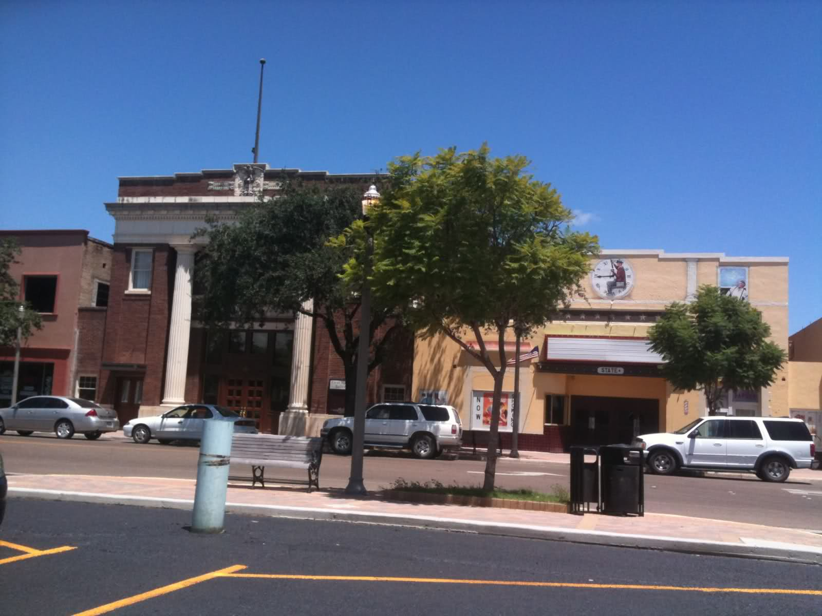 Mercedes, Texas historic downtown Texas Avenue